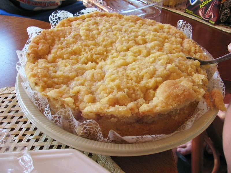 Cuca de banana (banana cake)